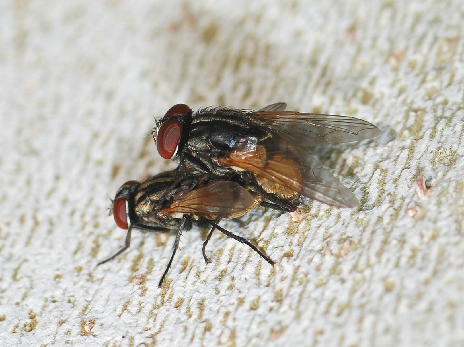 House flies mating (Musca domestica). Taken in Lisboa, Portugal.